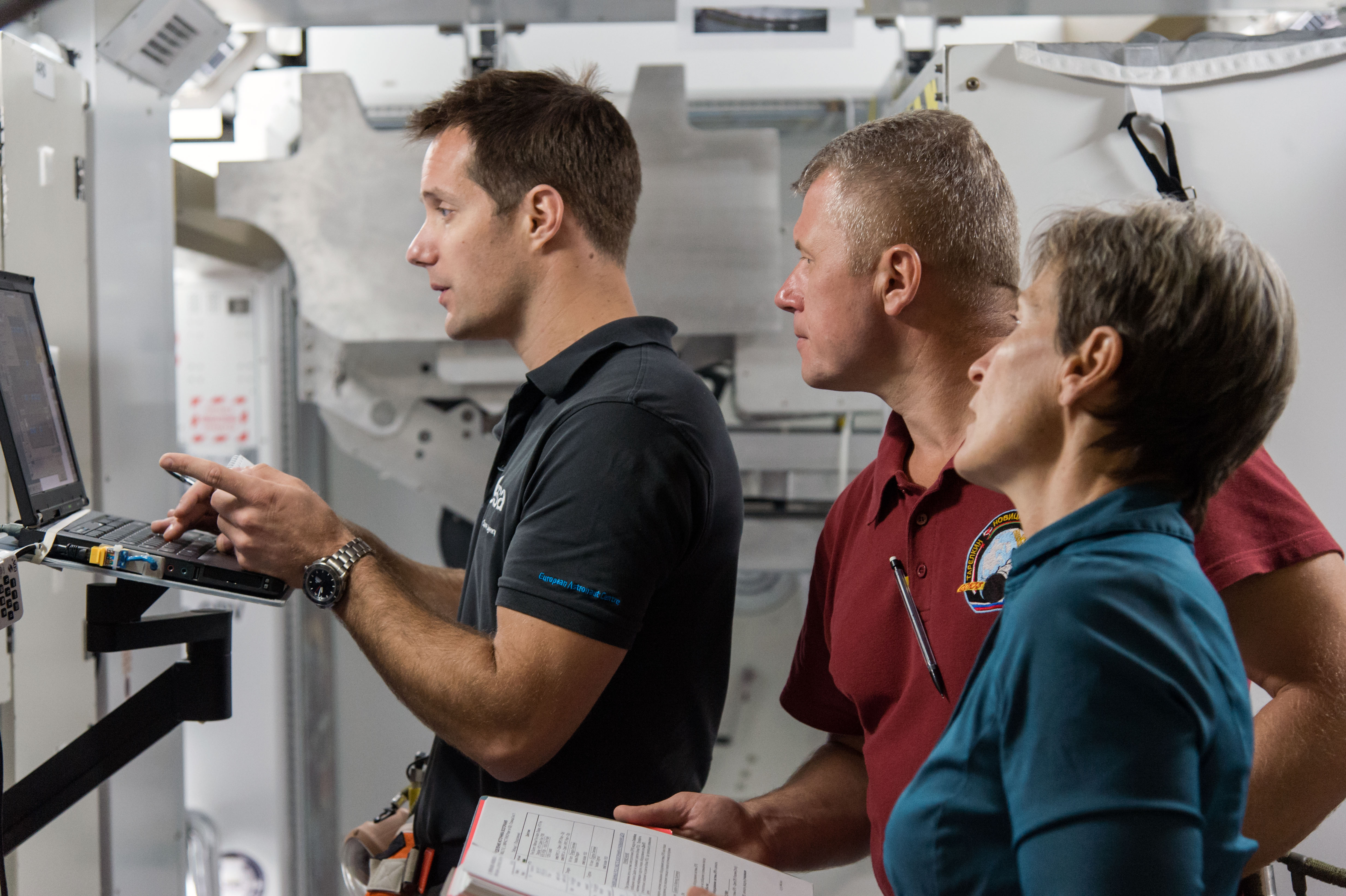 Expedition 50/51 crew members Peggy Whitson, Thomas Pesquet and Oleg Novitsky during Fire Scene Generic training.